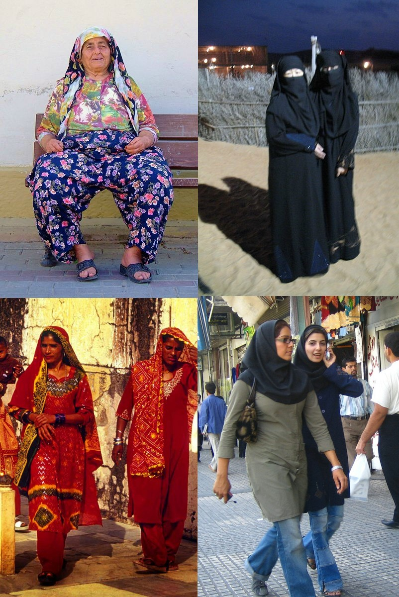 Four examples of hijab